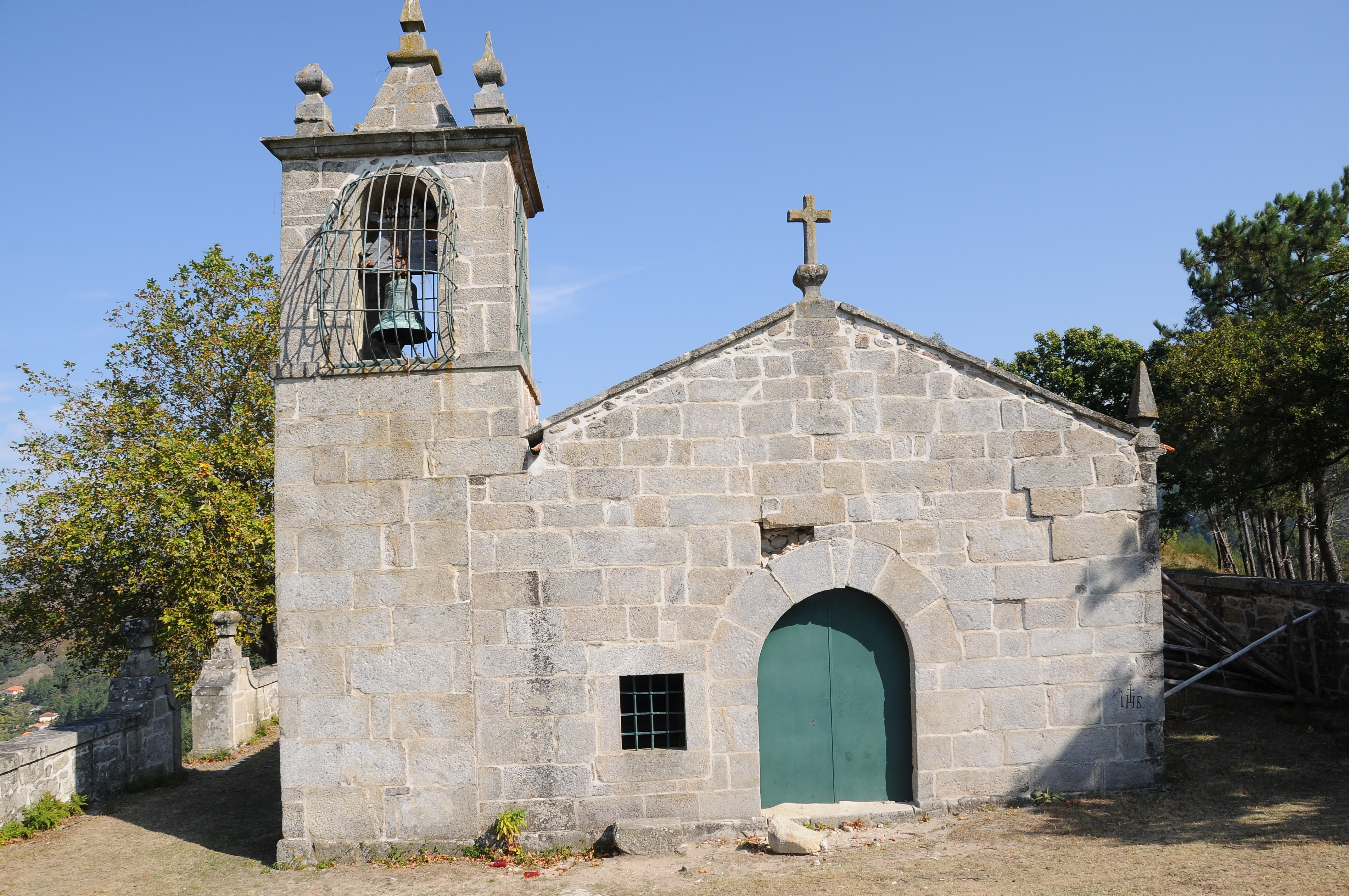 Senhora da Graça Chapel in Badim, Monção, Portugal